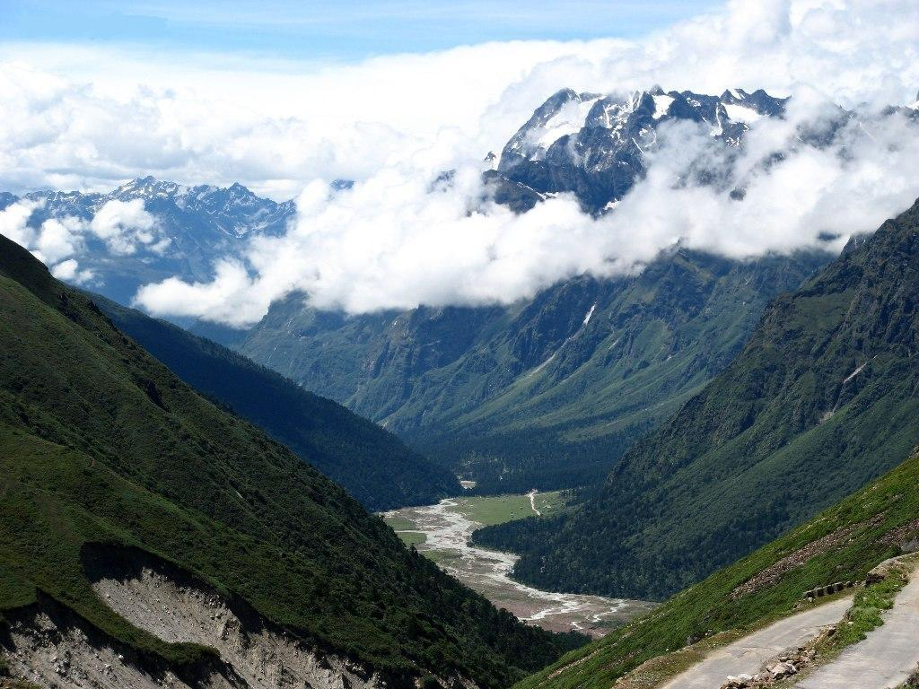 Yumthang valley (near Lachung), Sikkim